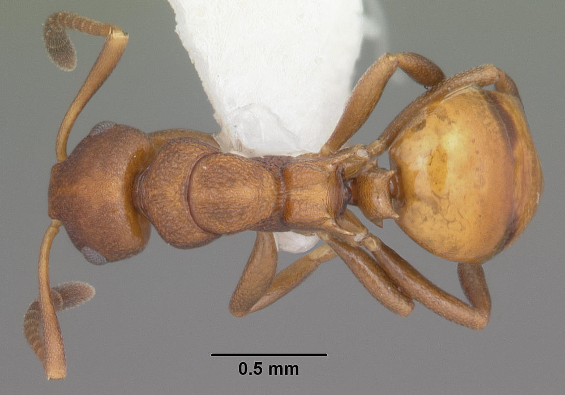 Dorsal view of ant Stigmacros punctatissima specimen psw8215-2.